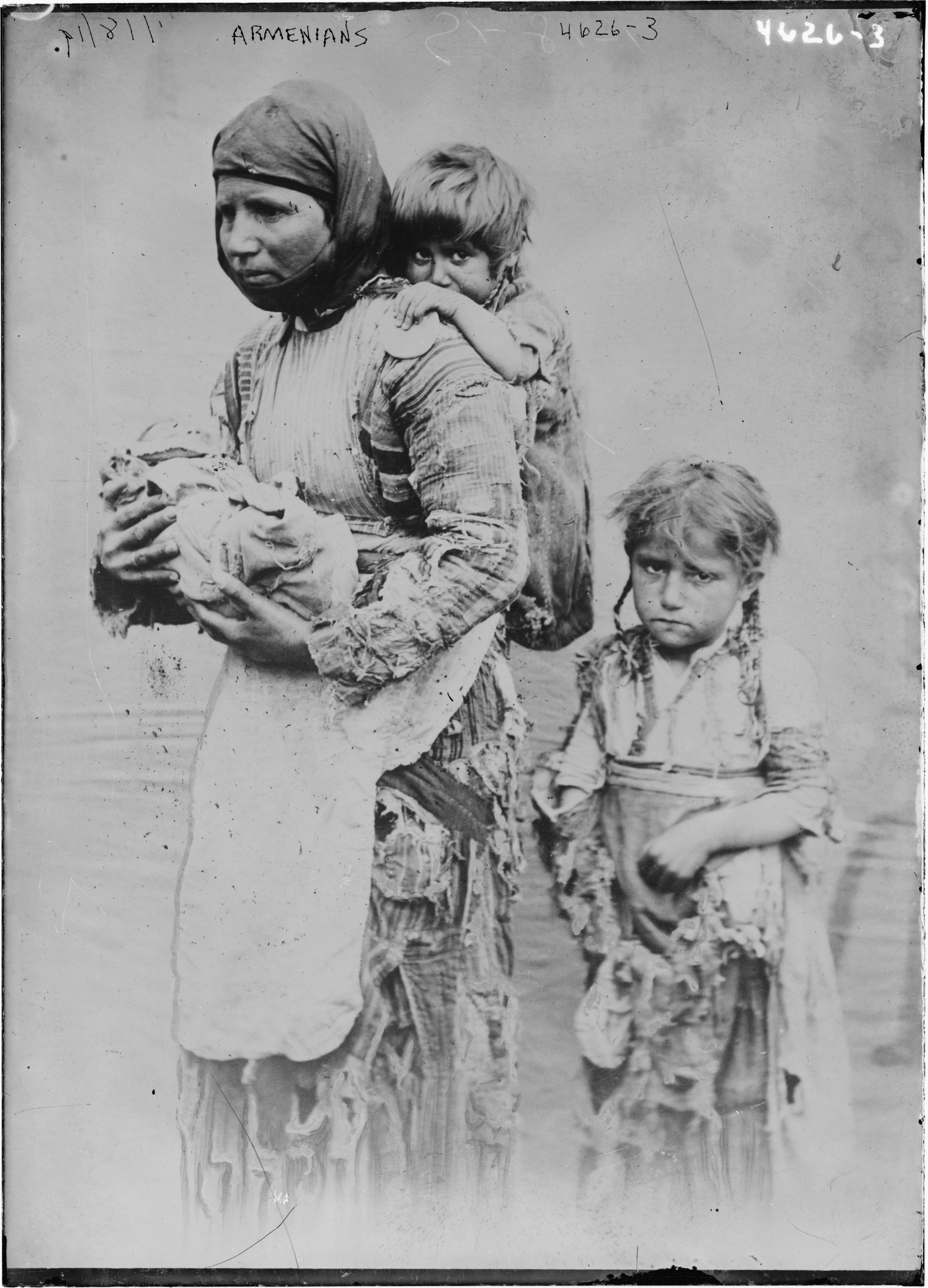 Photograph shows a poor, widowed Armenian woman and her children, Makarid (on her back) and Nuvart (standing next to her). In 1899, after the murder of her husband in the aftermath of the Armenian Massacres of 1894-1896, the family walked from their home in the Geghi region to Kharpert (Harput), eastern Anatolia (Turkey) seeking help from missionaries. Photograph was published in Helping Hands Series Magazine (Armenian Relief Committee) in December 1900 and an image of Nuvart wearing the same clothes appears in the December 1899 issue of the same publication. (Source: http: TITLE: Armenians CALL NUMBER: LC-B2- 4626-3[P&P] REPRODUCTION NUMBER: LC-DIG-ggbain-27081 (digital file from original negative) RIGHTS INFORMATION: No known restrictions on publication. MEDIUM: 1 negative : glass ; 5 x 7 in. or smaller. CREATED/PUBLISHED: 1899 CREATOR: Bain News Service, publisher. NOTES: Title from unverified data provided by the Bain News Service on the negatives or caption cards. Forms part of: George Grantham Bain Collection (Library of Congress). General information about the Bain Collection is available at Temp. note: Batch six loaded. FORMAT: Glass negatives. REPOSITORY: Library of Congress Prints and Photographs Division Washington, D.C. 20540 USA DIGITAL ID: (digital file from original neg.) ggbain 27081 CONTROL #: ggb2006002495